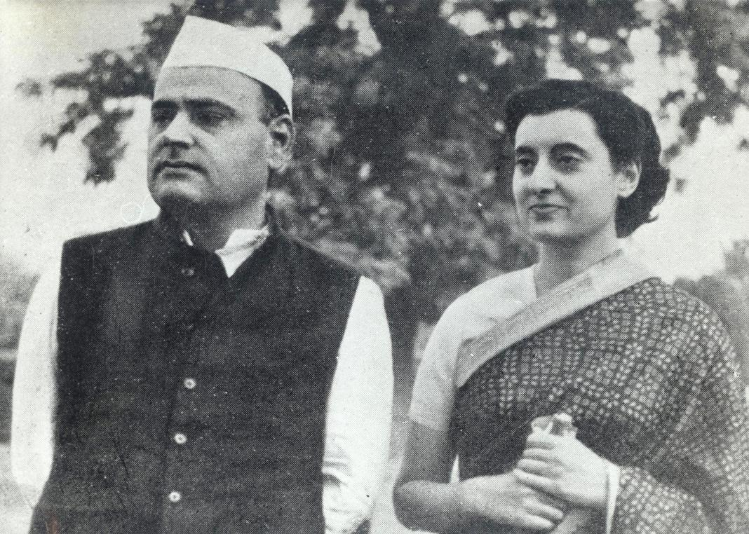 Feroze Gandhi and Indira Gandhi